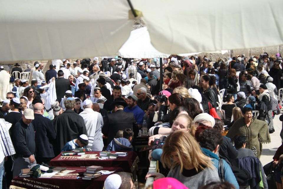 Separation between men and women at the Western Wall, 2012